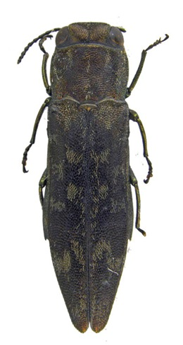 Agrilus samoensis Blair 1928, holotype.